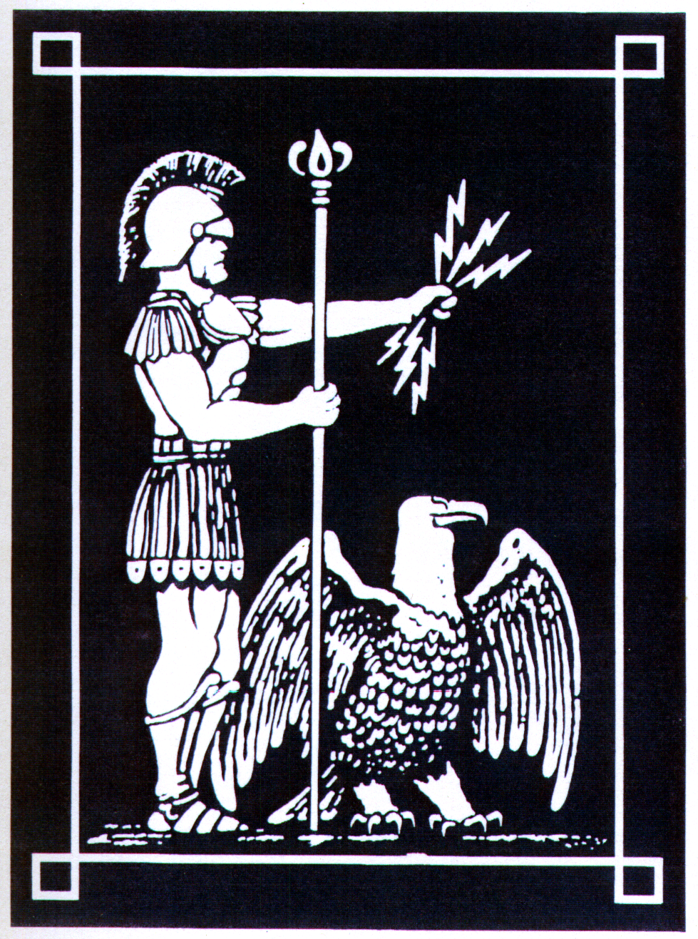 Emblem of the US Army's Nike Zeus coordinating office at the Redstone Arsenal in Alabama.